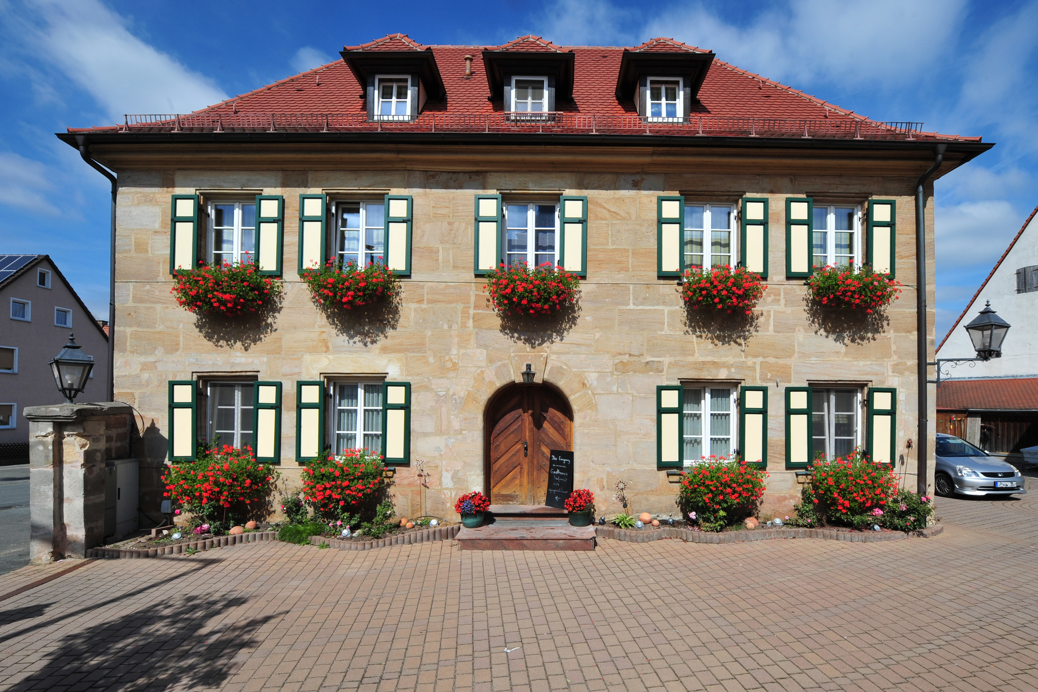 Kalchreuth: Schlösschen, Dorfplatz 14 This is a photograph of an architectural monument.